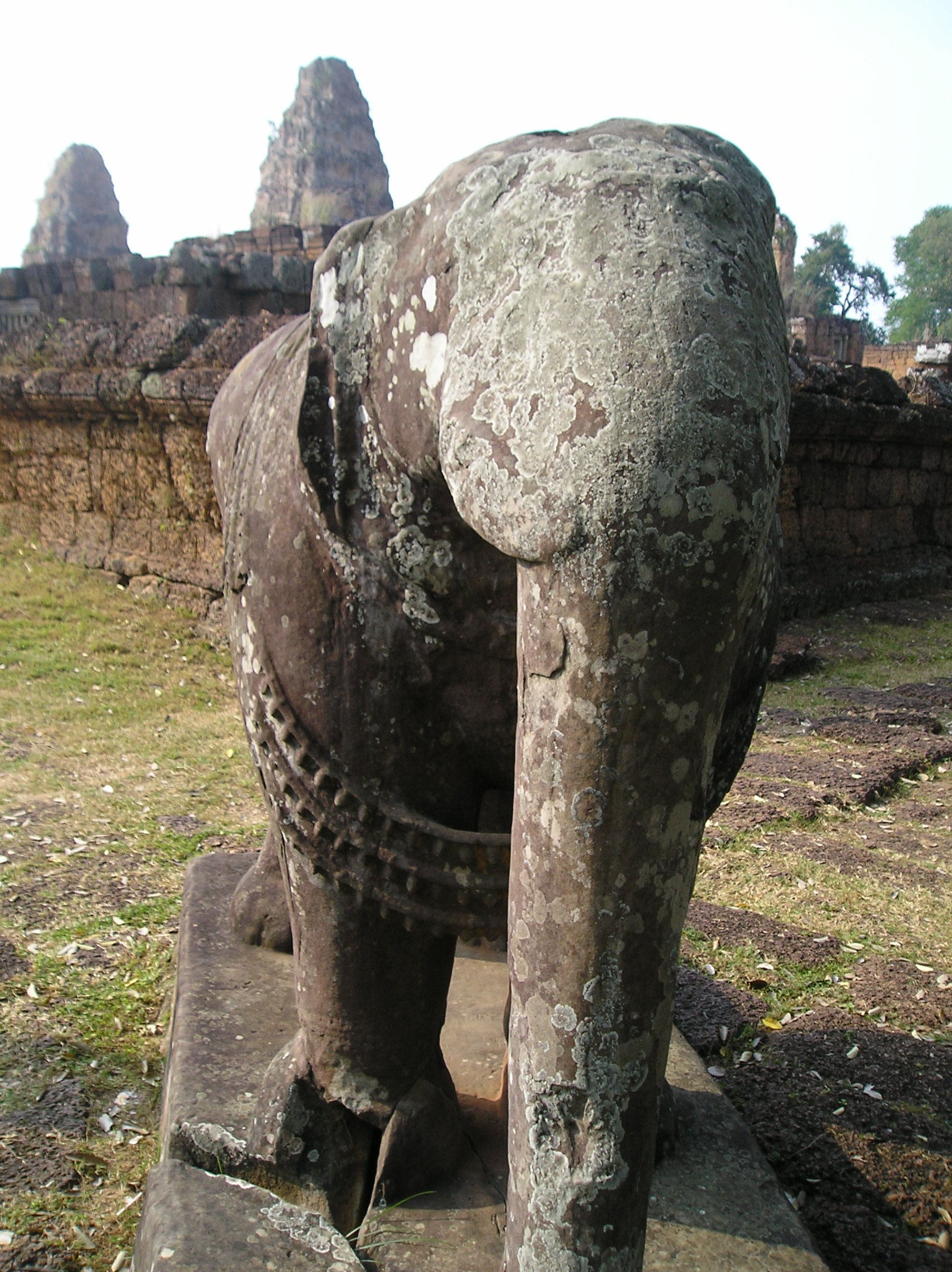 Photo by Writer128